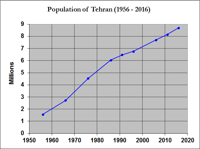 Tehran's population (1956-2016). According to the Iranian census.